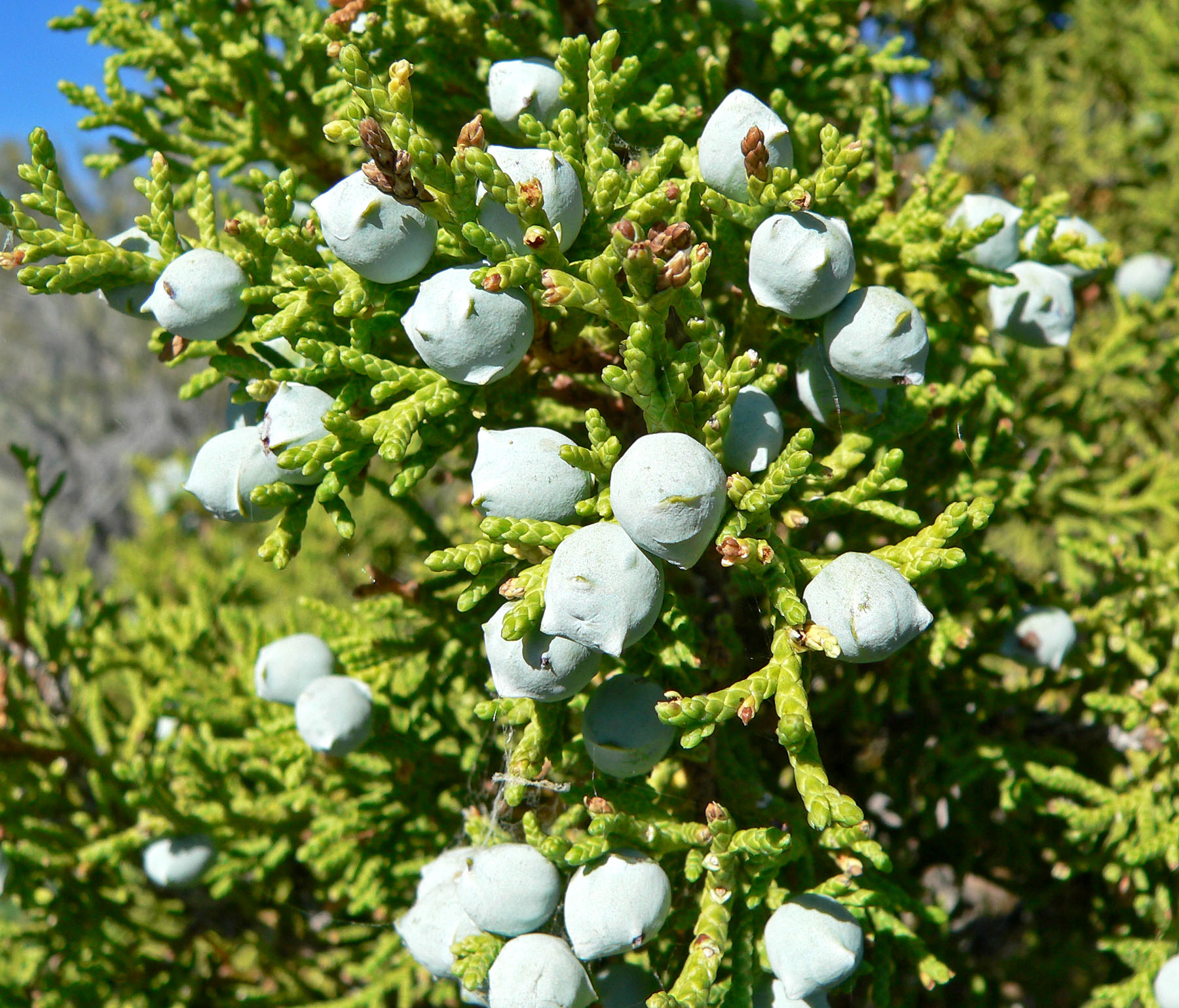 Juniperus osteosperma in Kyle Canyon, Spring Mountains, southern Nevada